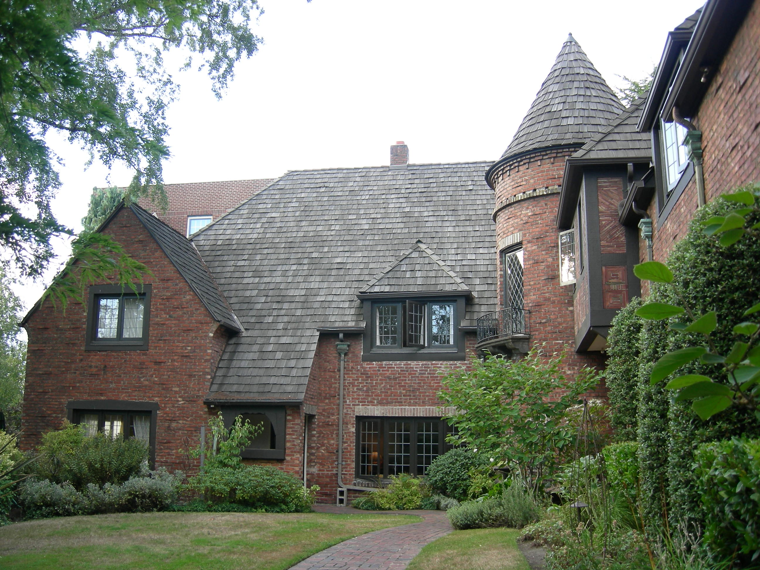 Oak Manor, 730 Belmont Avenue E in the Harvard Belmont Landmark District, Capitol Hill, Seattle, Washington, designed by Frederick Anhalt, built 1928. The name comes from the property having Capitol Hill's sole native Oak (not shown).